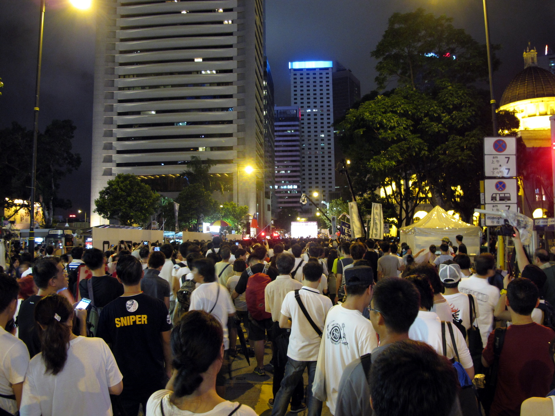 July 1 march at Central